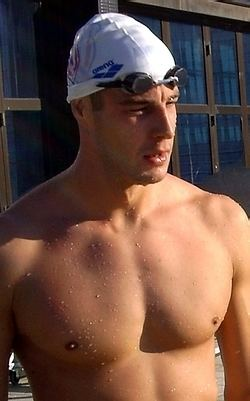 Famous swimmer